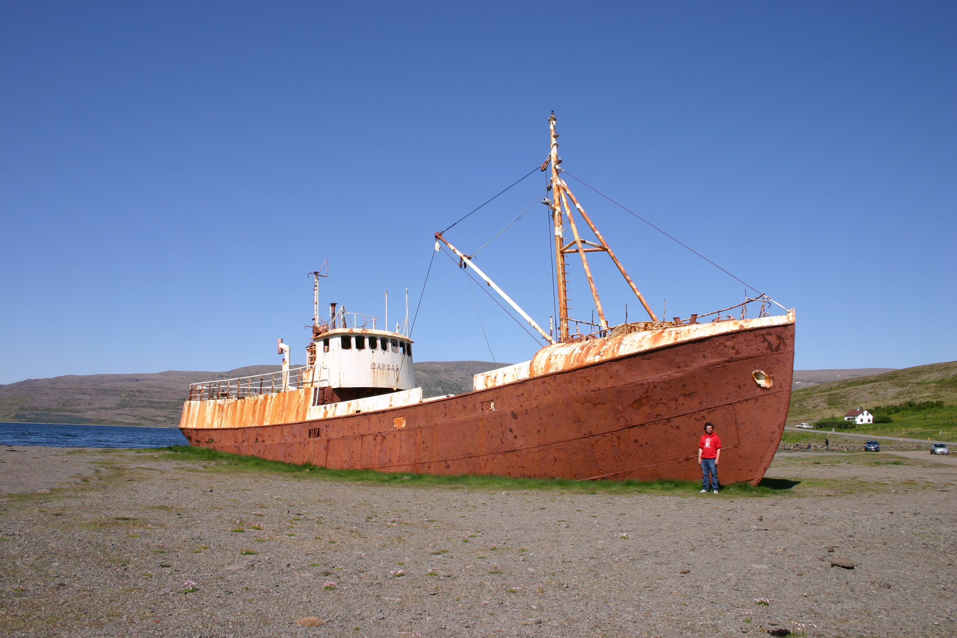 Oldest steel ship in Iceland. Originally from Norway. Near Patreksfjordur in the Westfjords, Iceland. Taken June 2008.